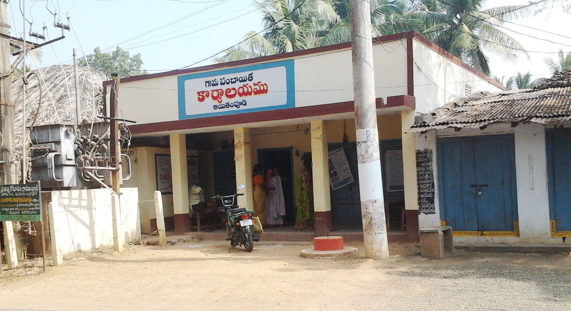 ఆంధ్రప్రదేశ్ పశ్చిమగోదావరి జిల్లా పెనుగొండ మండలంలోని అయితంపూడి గ్రామ సచివాలయపు కార్యాలయం